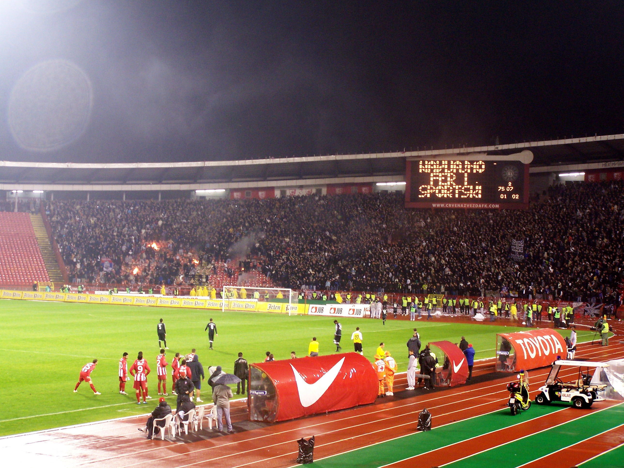 Players rest, as the FK Crvena Zvezda - FK Partizan match is stopped for about 10 minutes. The reason was Grobari setting the stadium ablaze.